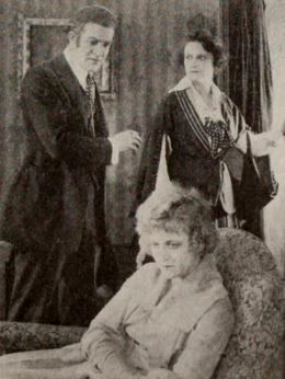 Still from the 13th chapter of the American film serial The Silent Mystery (1918) with Francis Ford, Mae Gaston, and Rosemary Theby, on page 47 of the March 22, 1919 Exhibitors Herald.